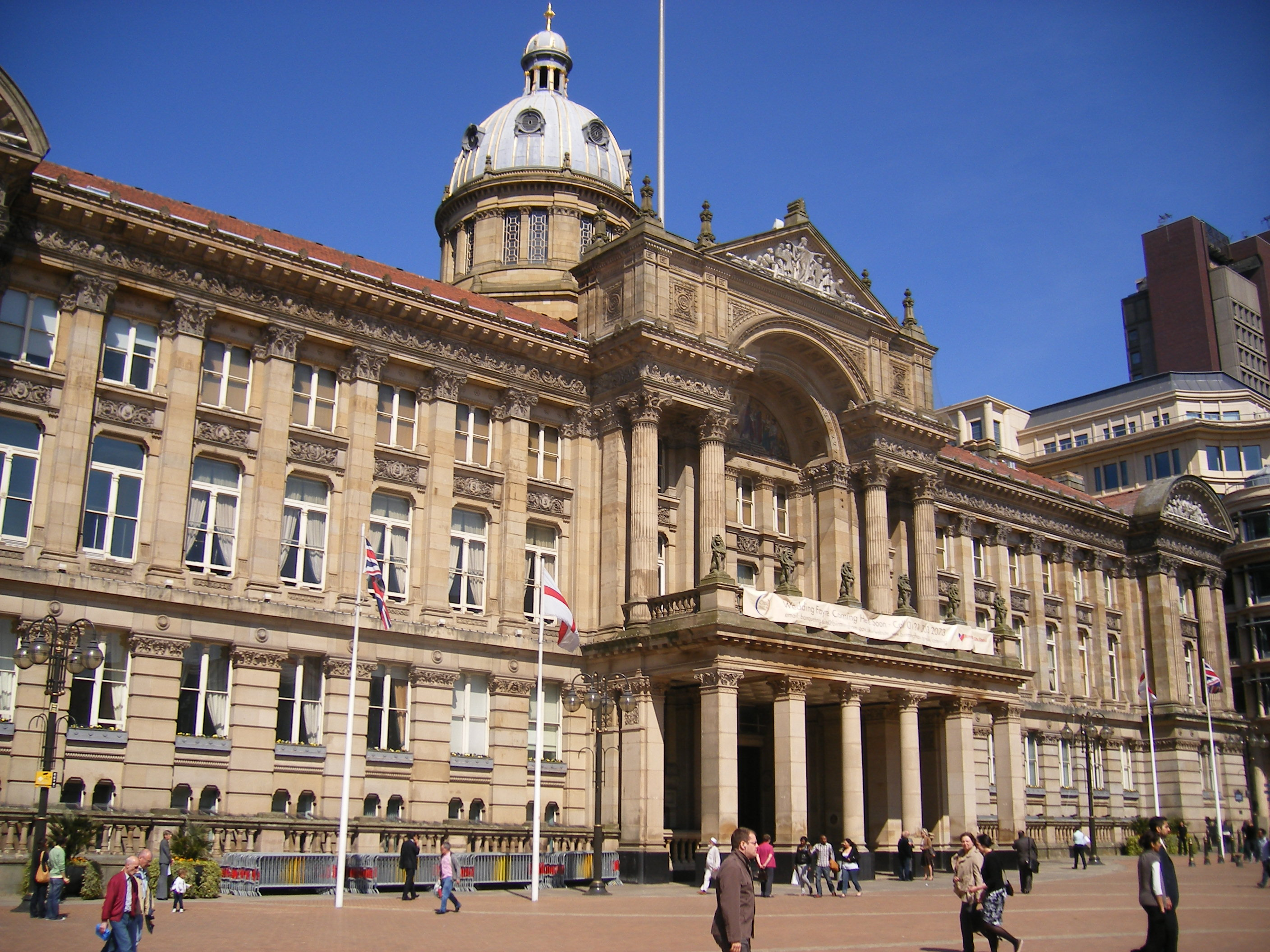 Birmingham City Council House is in Victoria Square, Birmingham and is Grade II* listed. It is home to the largest Local Authority in the UK (Birmingham City Council). It shares part of its building with the Birmingham Museum and Art Gallery (in Chamberlain Square). In the late 19th century the council had to choose between architects Martin & Chamberlain (gothic) or Yeoville Thomason (classical). They chose Thomason. Council House Extension - Heritage Gateway